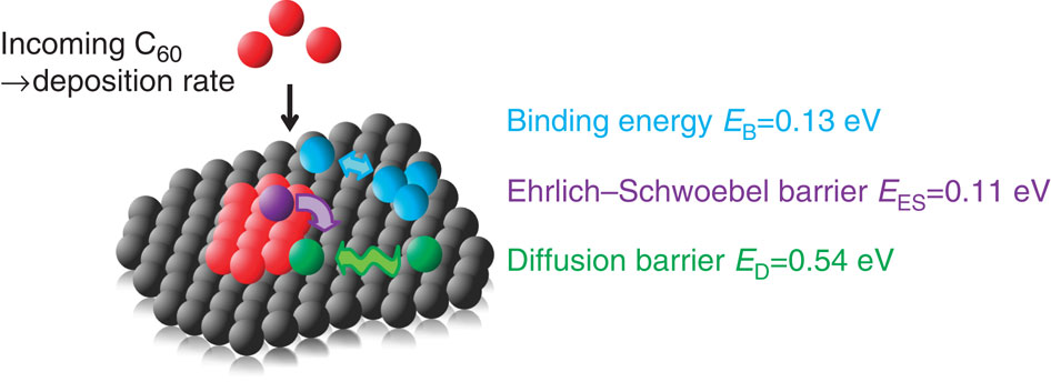 The diffusion barrier ED, binding energy EB and Ehrlich–Schwoebel barrier EES determine island nucleation and interlayer transport in multilayer growth of C60 Fullerene. Included are numerical values for these energies, determined by fitting an experiment using kinetic Monte Carlo (KMC) simulations. Figure 1 from S. Bommel et al., "Unravelling the multilayer growth of the ​fullerene C60 in real time" Nature Communications 5 Description adapted from the article under the terms of the CC-BY 4.0 licence.